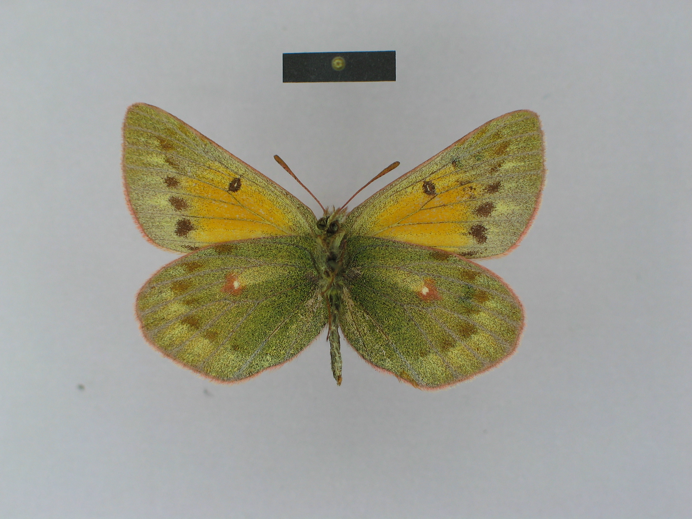 Specimen of the species Colias dubia from the collection of the Zoologische Staatssamlung München; ♀ ventral side; scalebar=1 cm